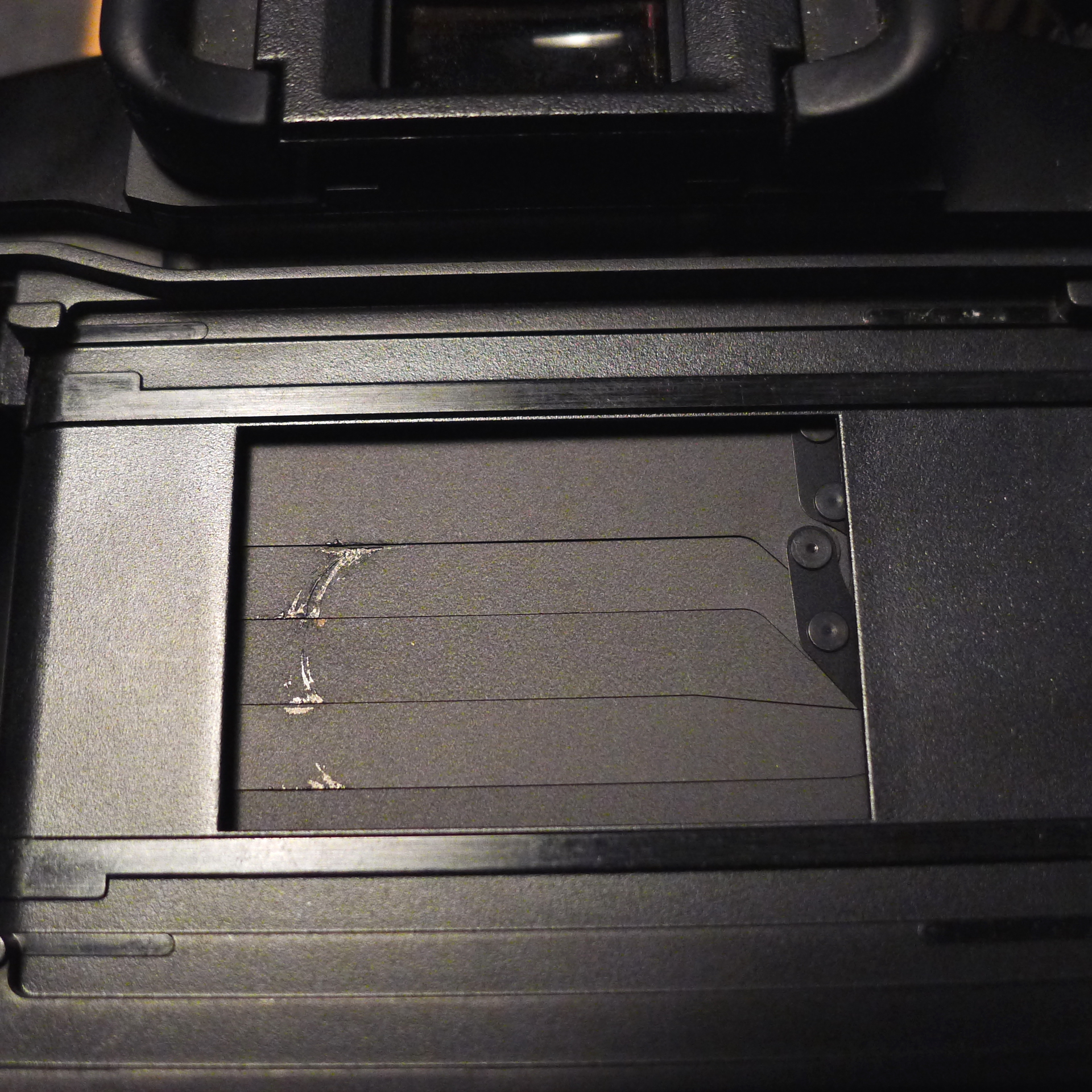 Shutter of Canon EOS 750 SLR camera